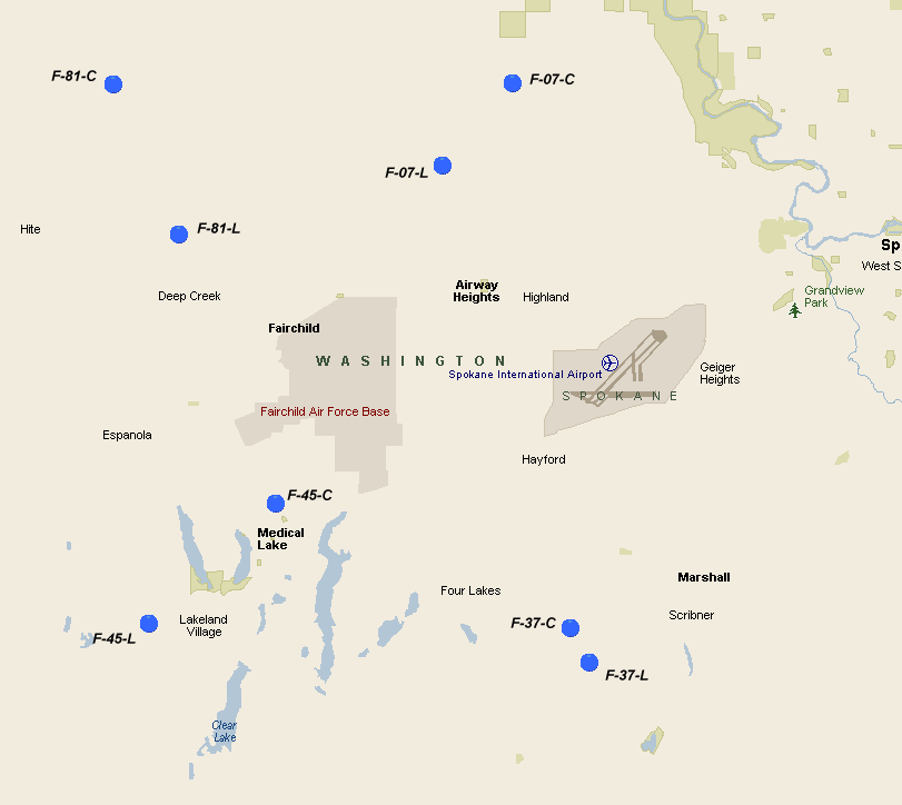 Fairchild AFB Defense Area Nike Missile Sites